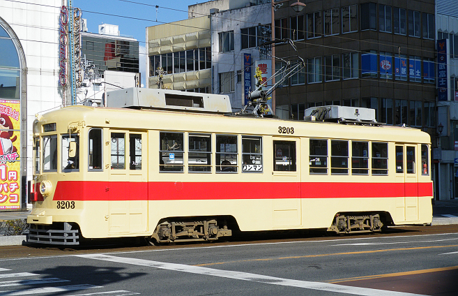 Toyohashi railway's tram type 3200(No.3203), Toyohashi Sta., Japan.